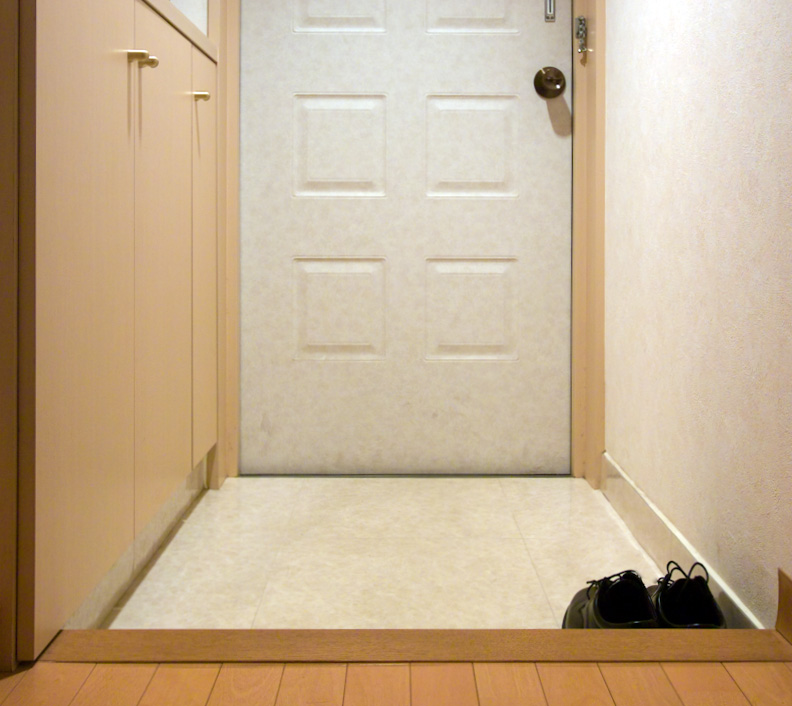 Genkan 玄関 of a residence in Japan, viewed from the interior. The foreground is the raised floor of the hallway. The shoes rest on the tile floor of the genkan. To the left of the genkan is the getabako. The background of the photograph is the exterior door, shown closed.